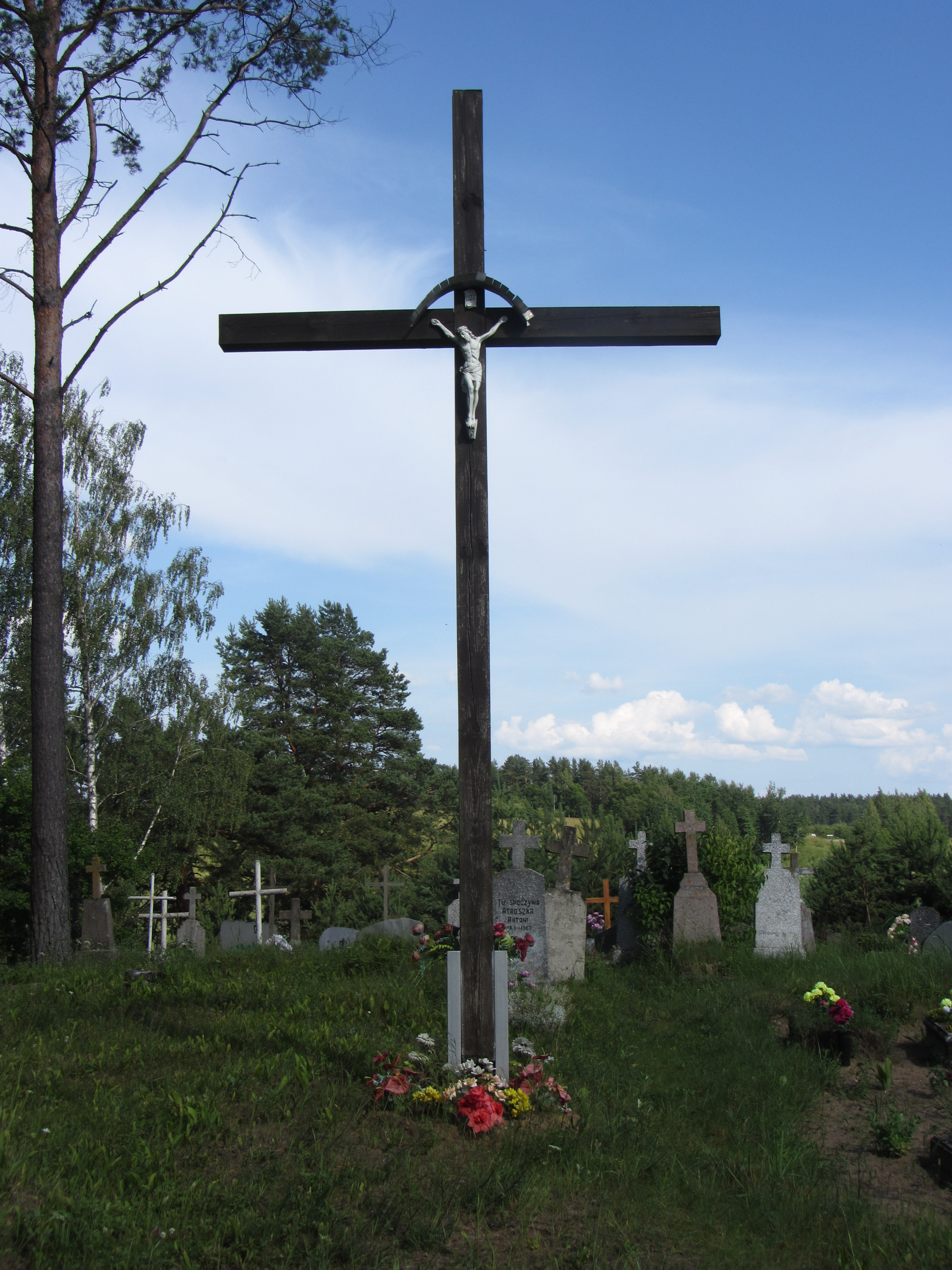 Turmanto sen., Lithuania